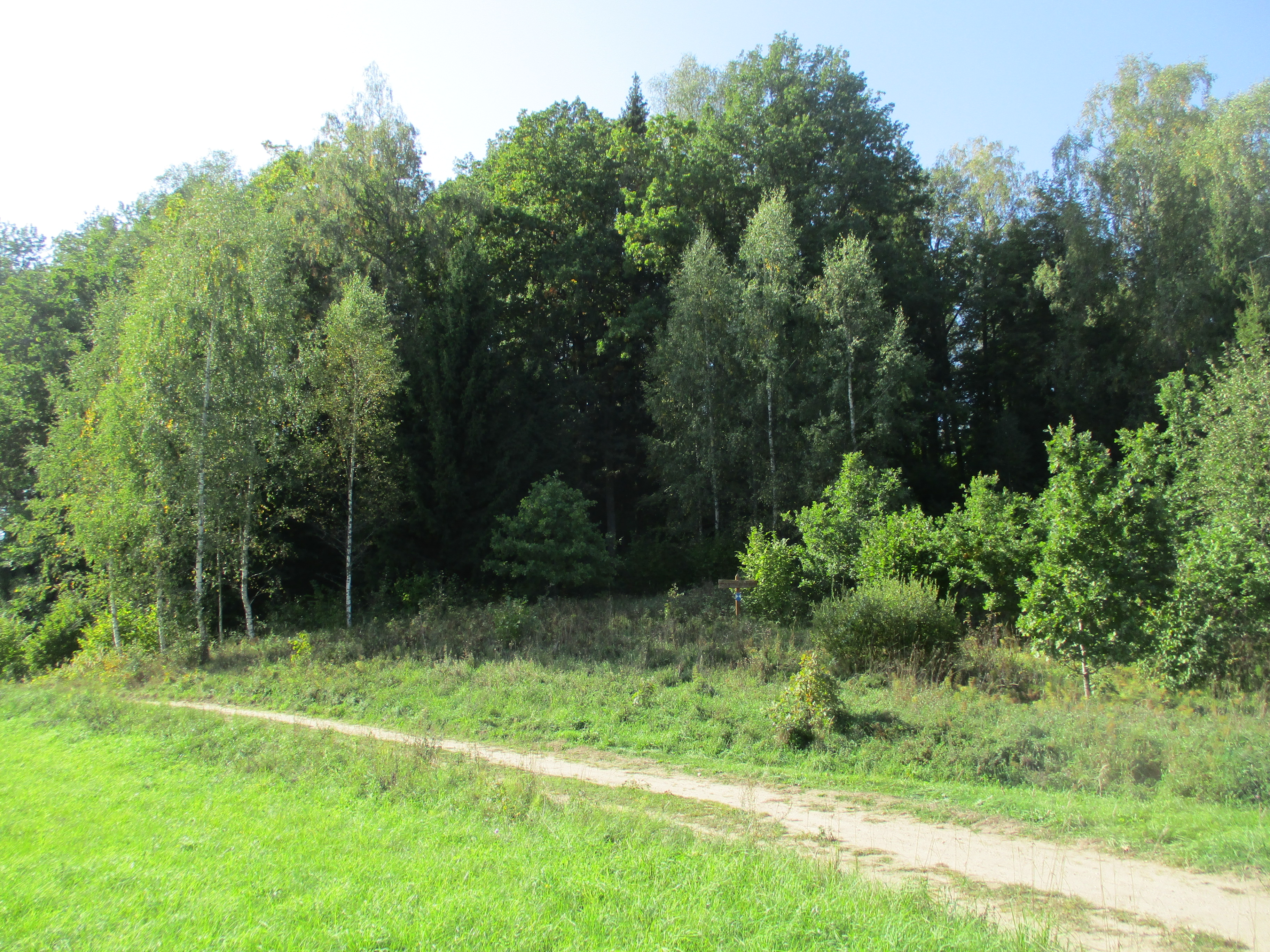 Sērpiņu hillfort, Viesīte parish.